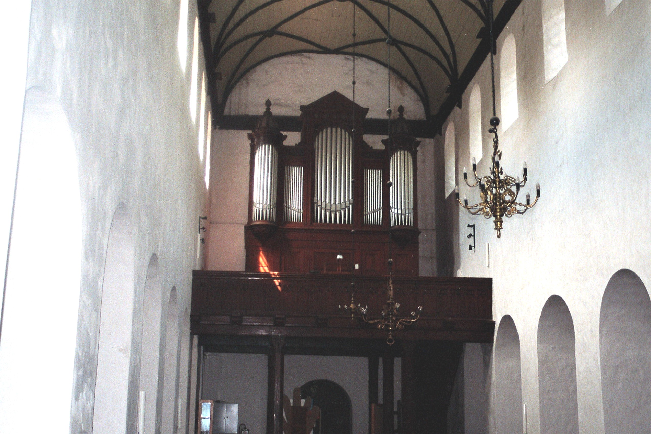 Burg bei Magdeburg, Saint Nicholas church, view to the organ